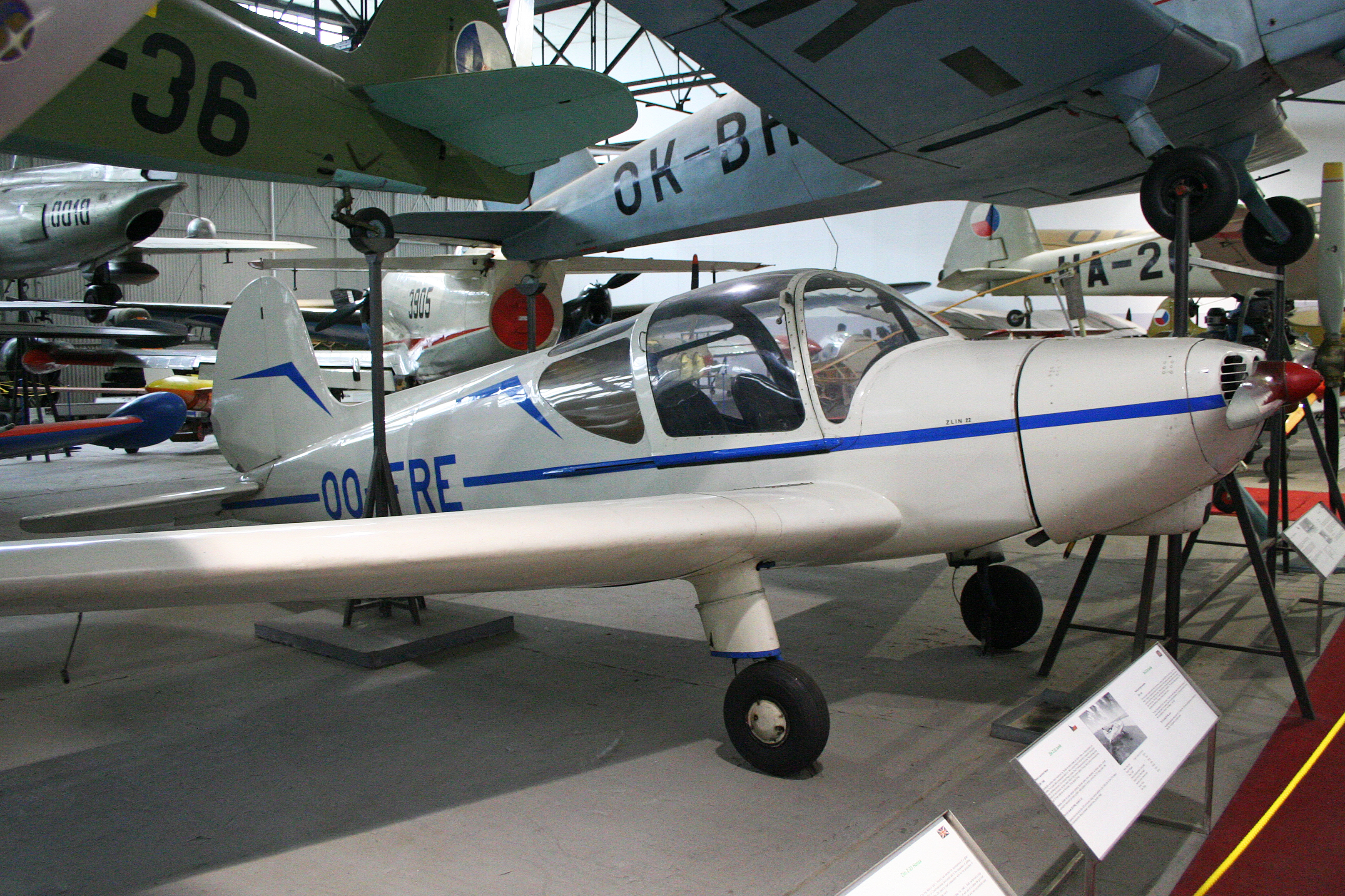 msn 82. On display in the Post War hangar, Kbely Museum, Czech Republic. 07-10-2012